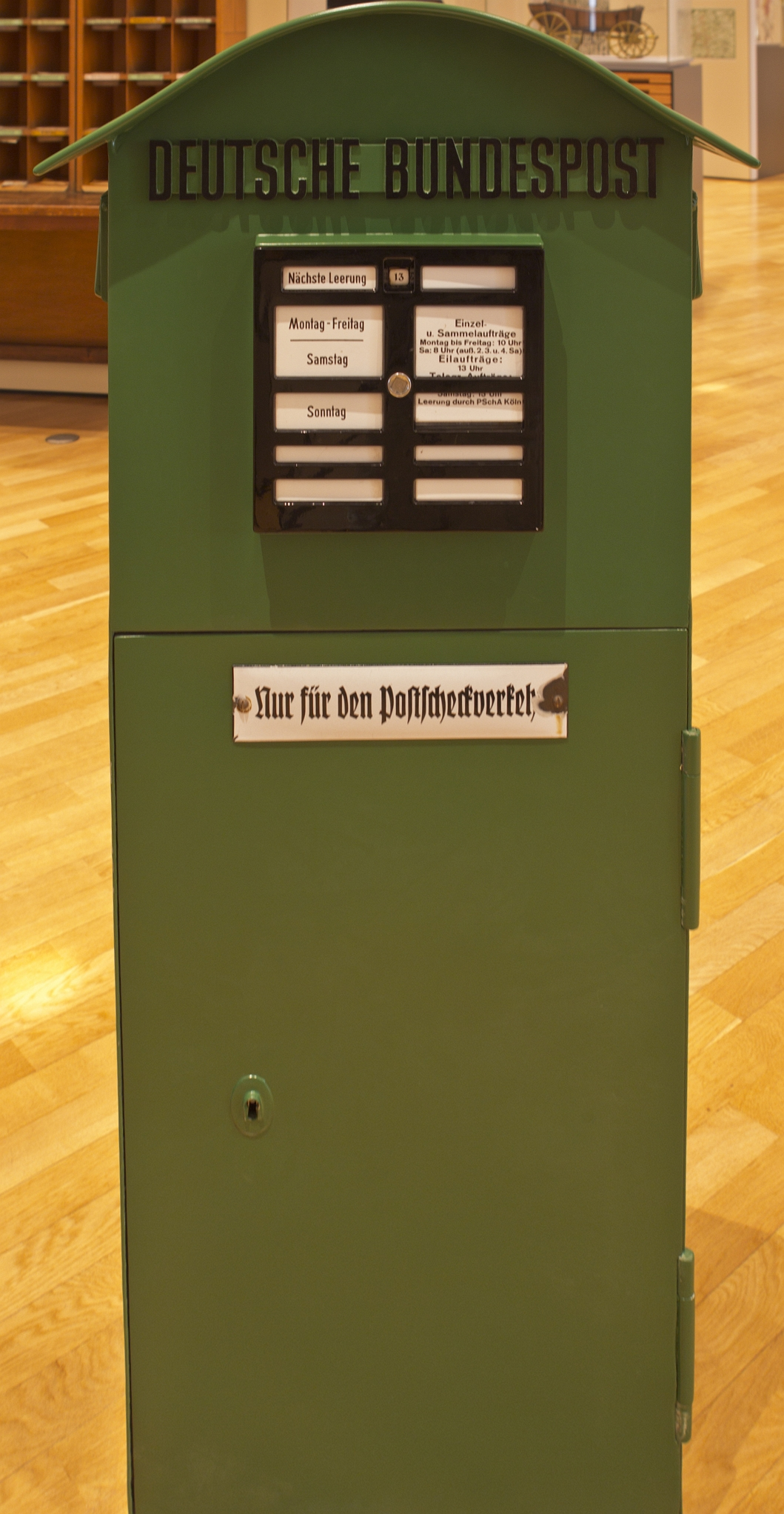 Post box/Mailbox only for German "Postschecks". Collection of Post boxes at the Museum für Kommunikation Frankfurt/Main